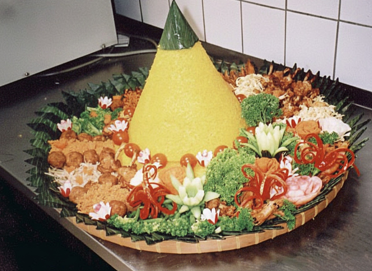 This is a picture of a Javanese yellow rice 'cake'. Made by and courtesy of Taufik Thoyib and Joyce from the toko Oostersch Huisje, The Hague, Holland.